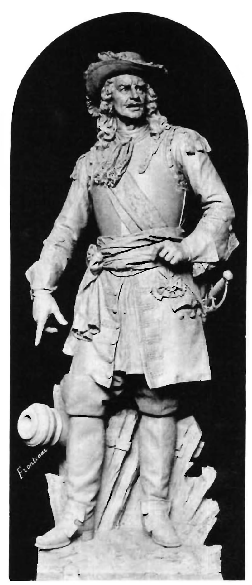 Reproduction of a photograph of the plaster version of the statue of Frontenac sculpted by Louis-Philippe Hébert. [2] The bronze version of the statue was installed in 1890 and is located on the facade of the Parliament building in Québec (Quebec, Canada).